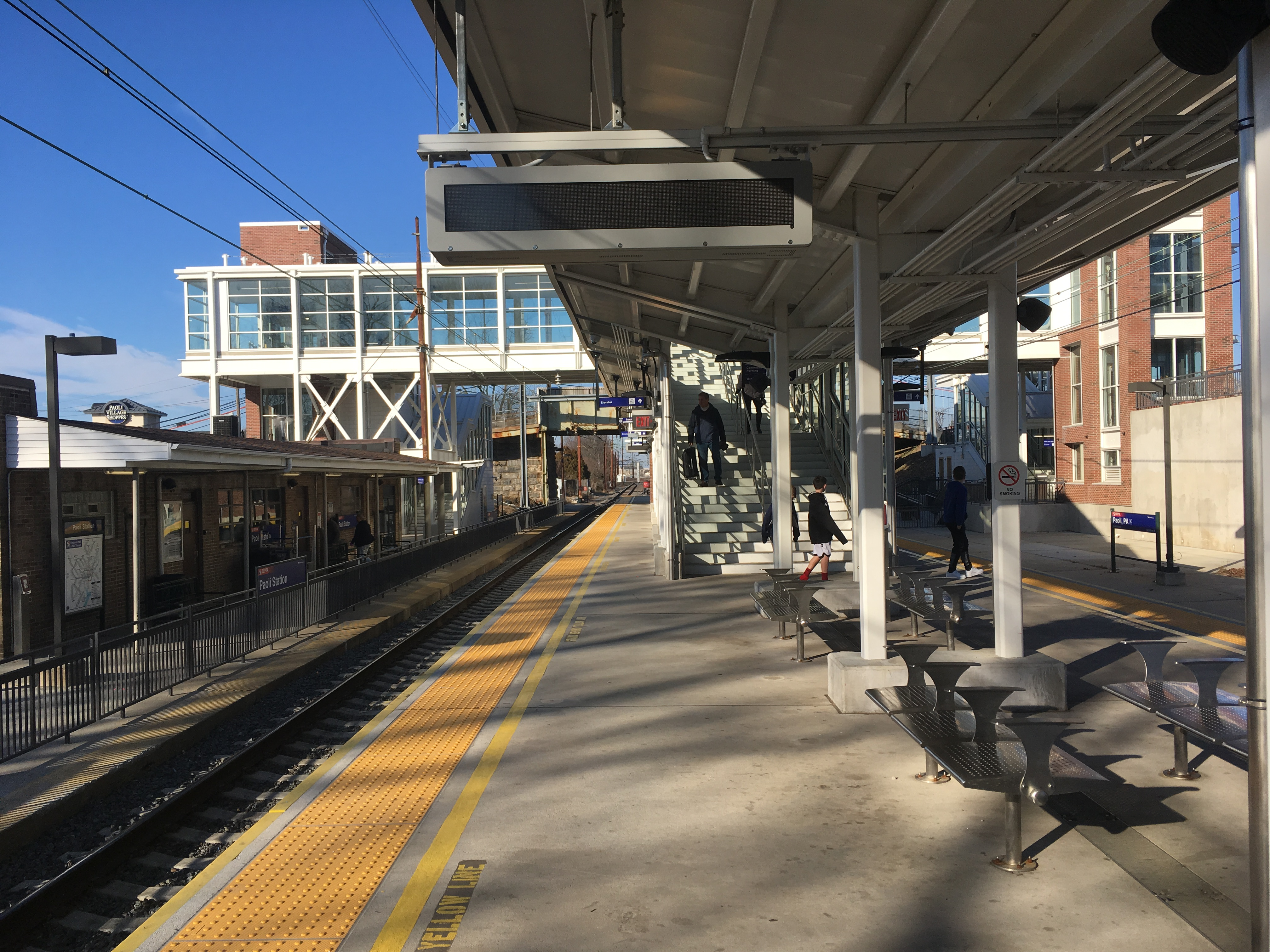 The Paoli station on SEPTA’s Paoli/Thorndale Line and Amtrak’s Keystone Corridor in Paoli, Pennsylvania viewed from the platform